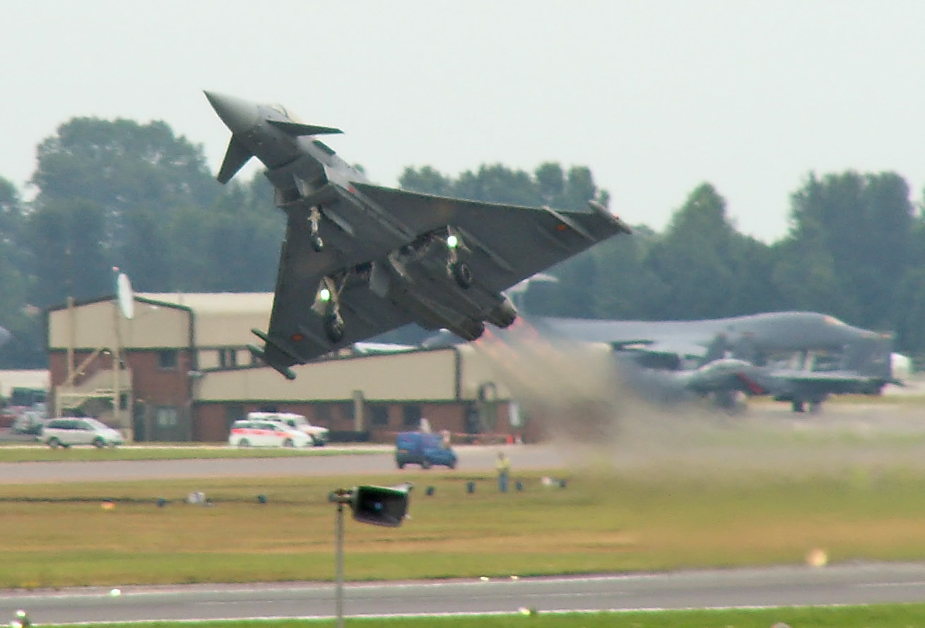 Take-off of a Spanish[1] Eurofighter Typhoon in the Royal International Air Tattoo 2007.